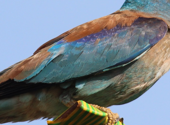 Coracias garrulus - detail of wing